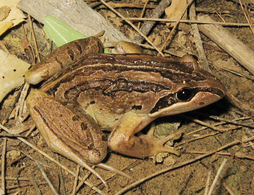 The Bwroen-striped Frog (Limnodynastes peronii)